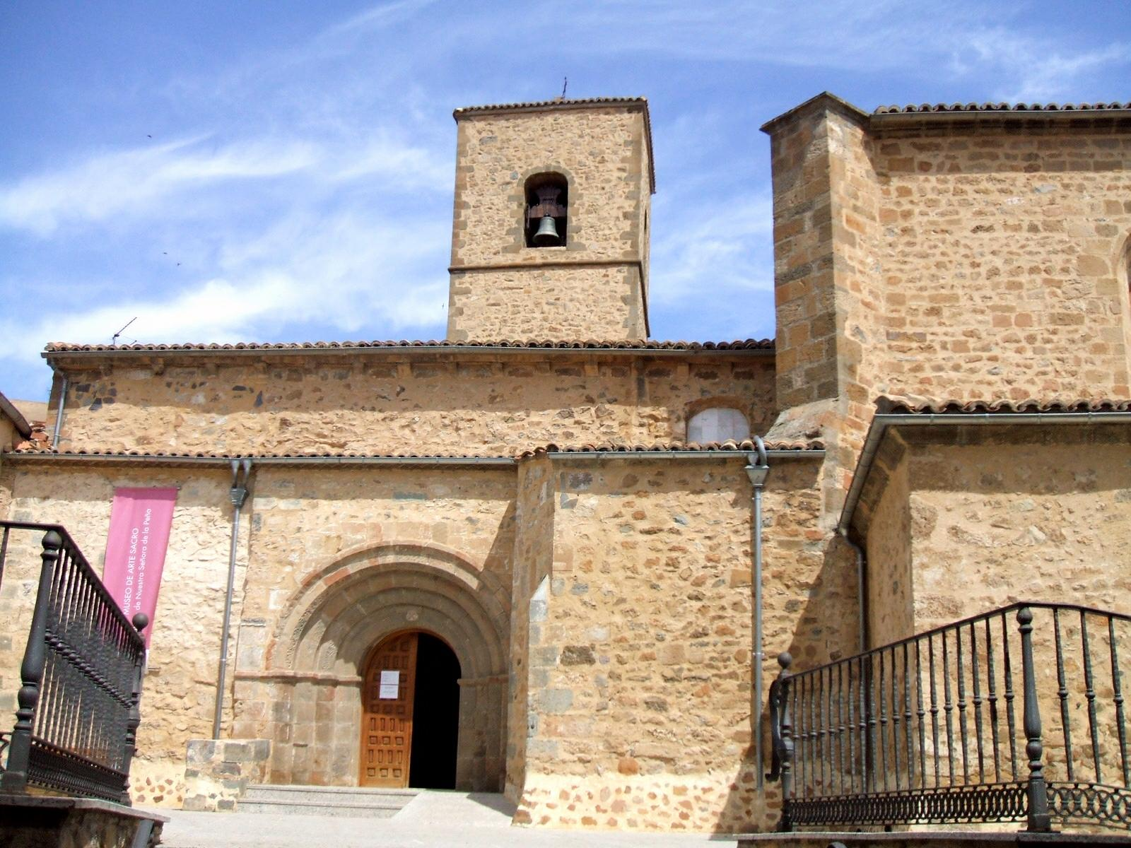 Iglesia de Nuestra Señora de la Peña, en Ágreda (Soria, Castilla y León, España)